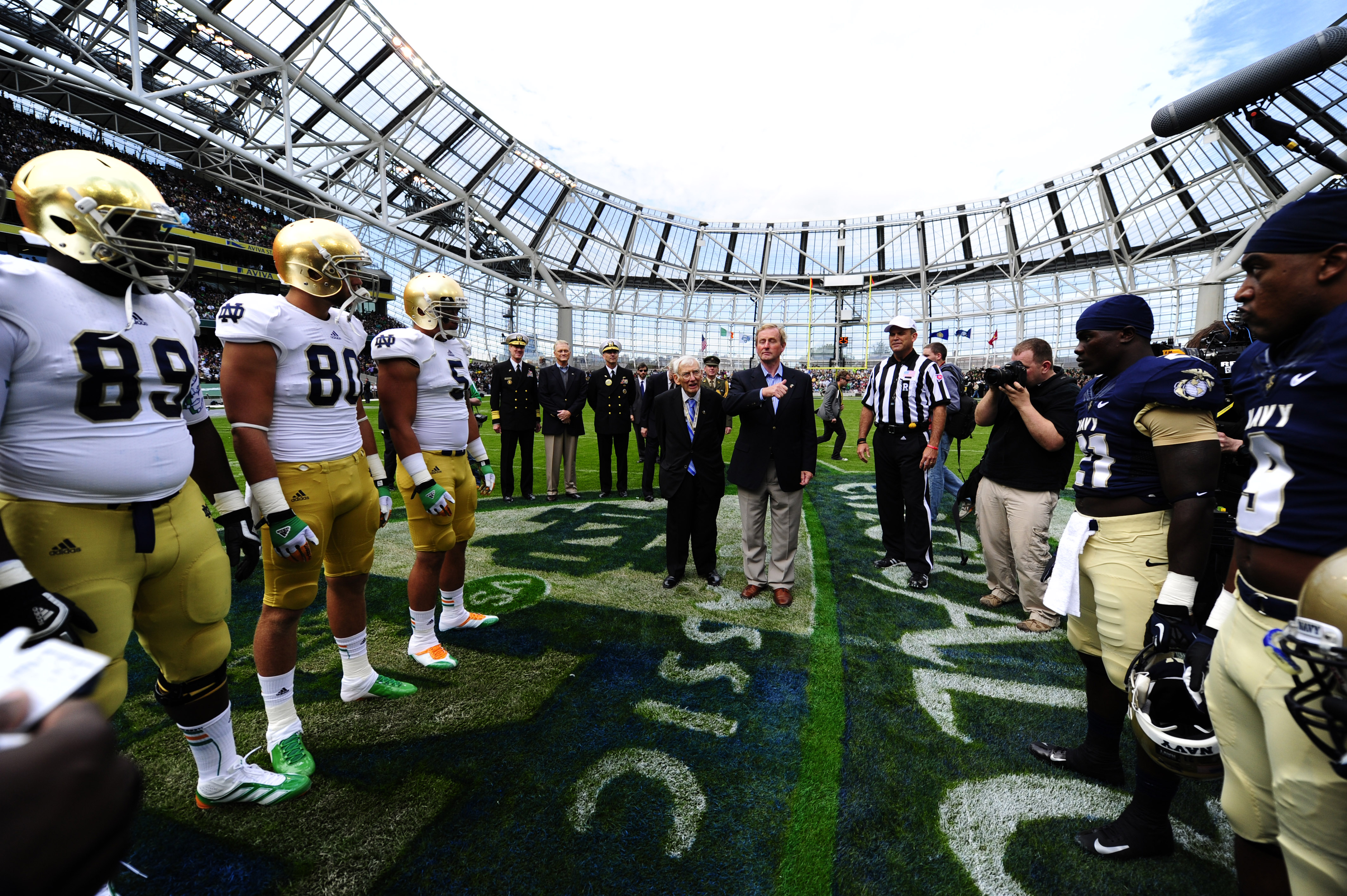 "DUBLIN (Sept. 1, 2012) U.S. Ambassador to Ireland, the Honorable Daniel Rooney (center left) and Irish Prime Minister Enda Kenny take part in the opening coin toss during the NCAA Emerald Isle Classic college football season opener in Aviva Stadium. Notre Dame played Navy for the 86th straight year, making it the longest continuous intersectional rivalry in the U.S. (U.S. Navy photo by Senior Chief Mass Communication Specialist Michael Lewis/Released)"